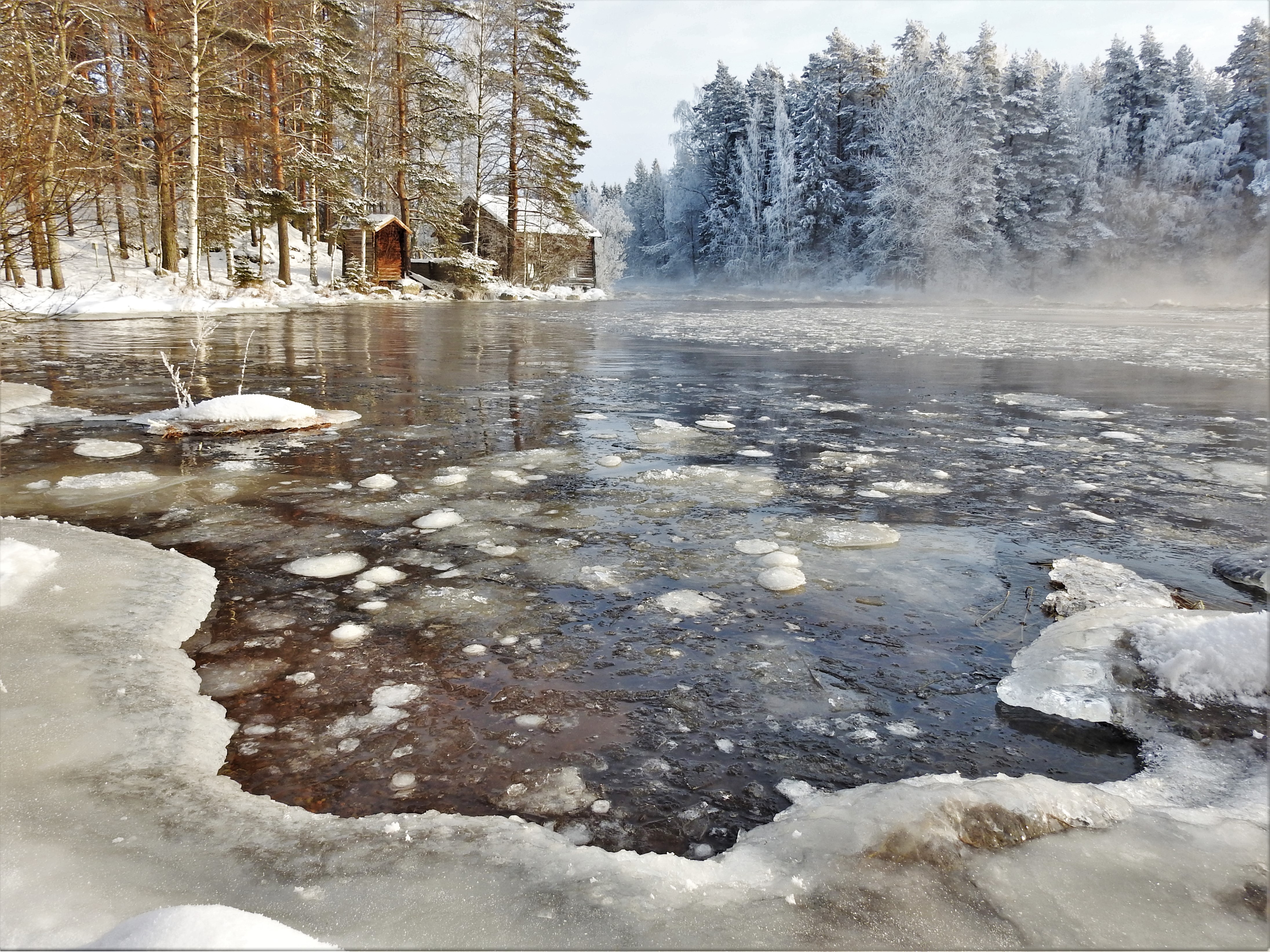 Kapeenkoski rapids